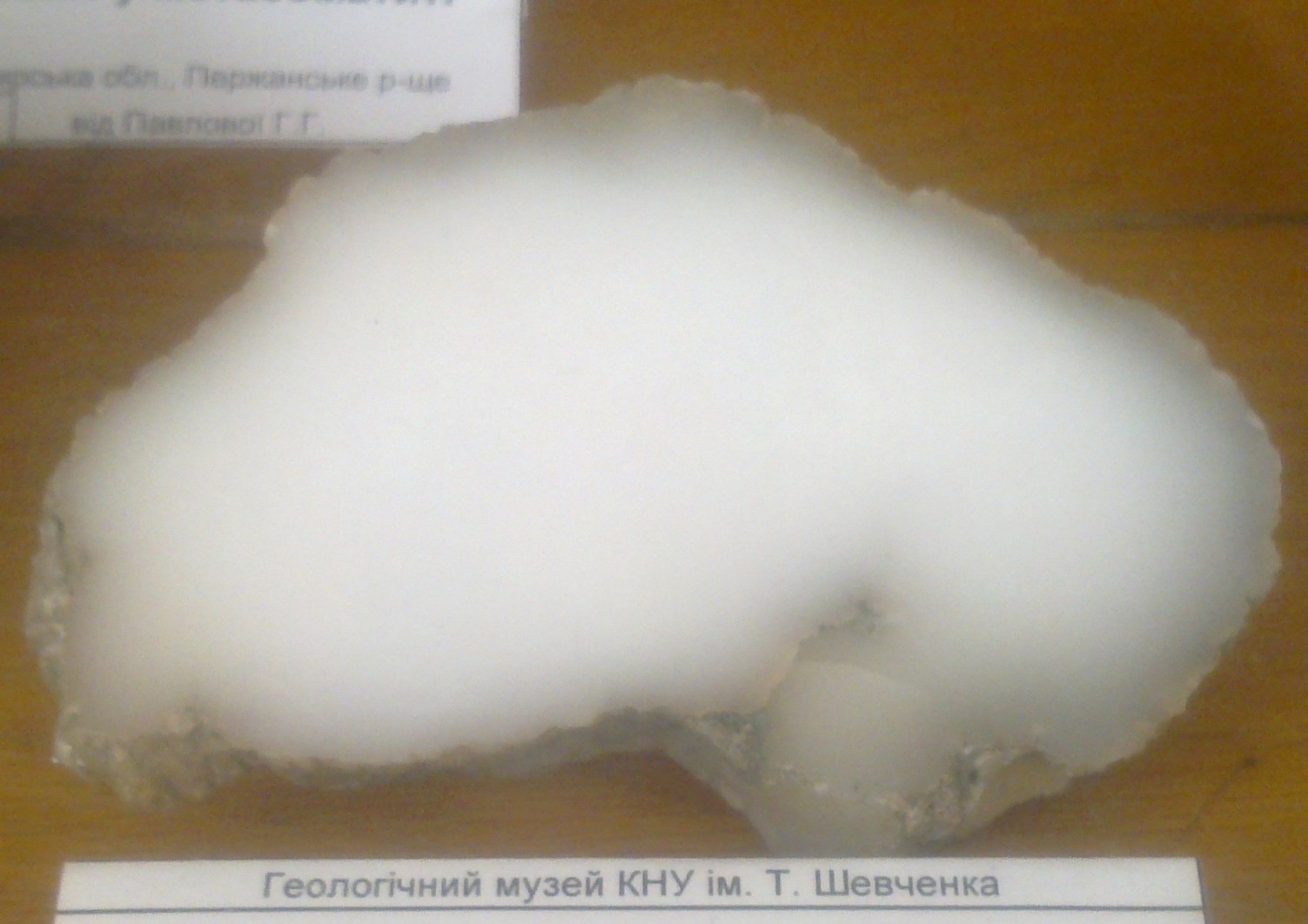 Cacholong